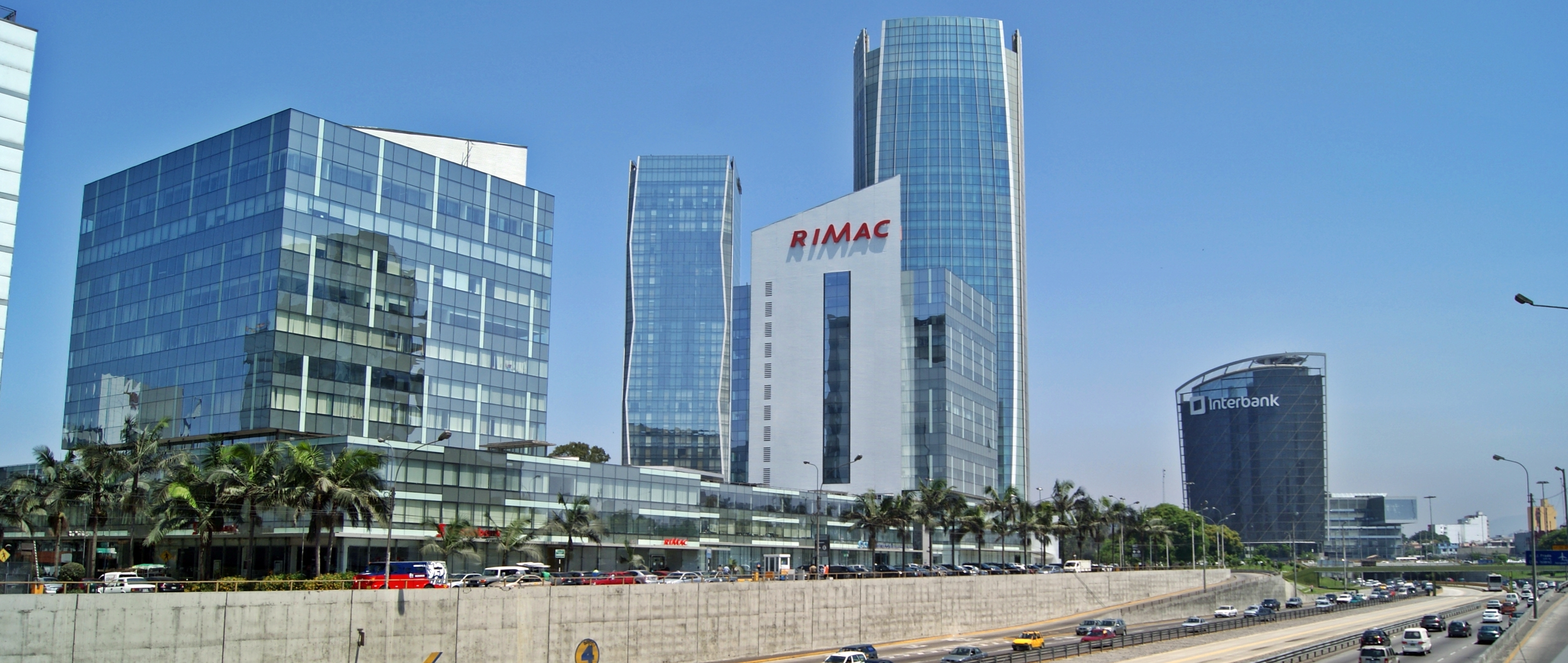 Lima, Peru (San Isidro District). December 2013.